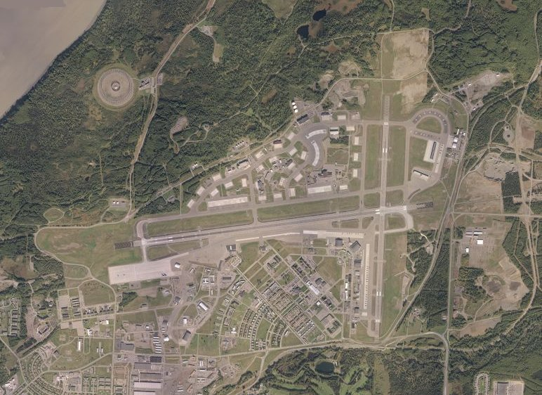 USGS orthophoto of Elmendorf Air Force Base, Alaska